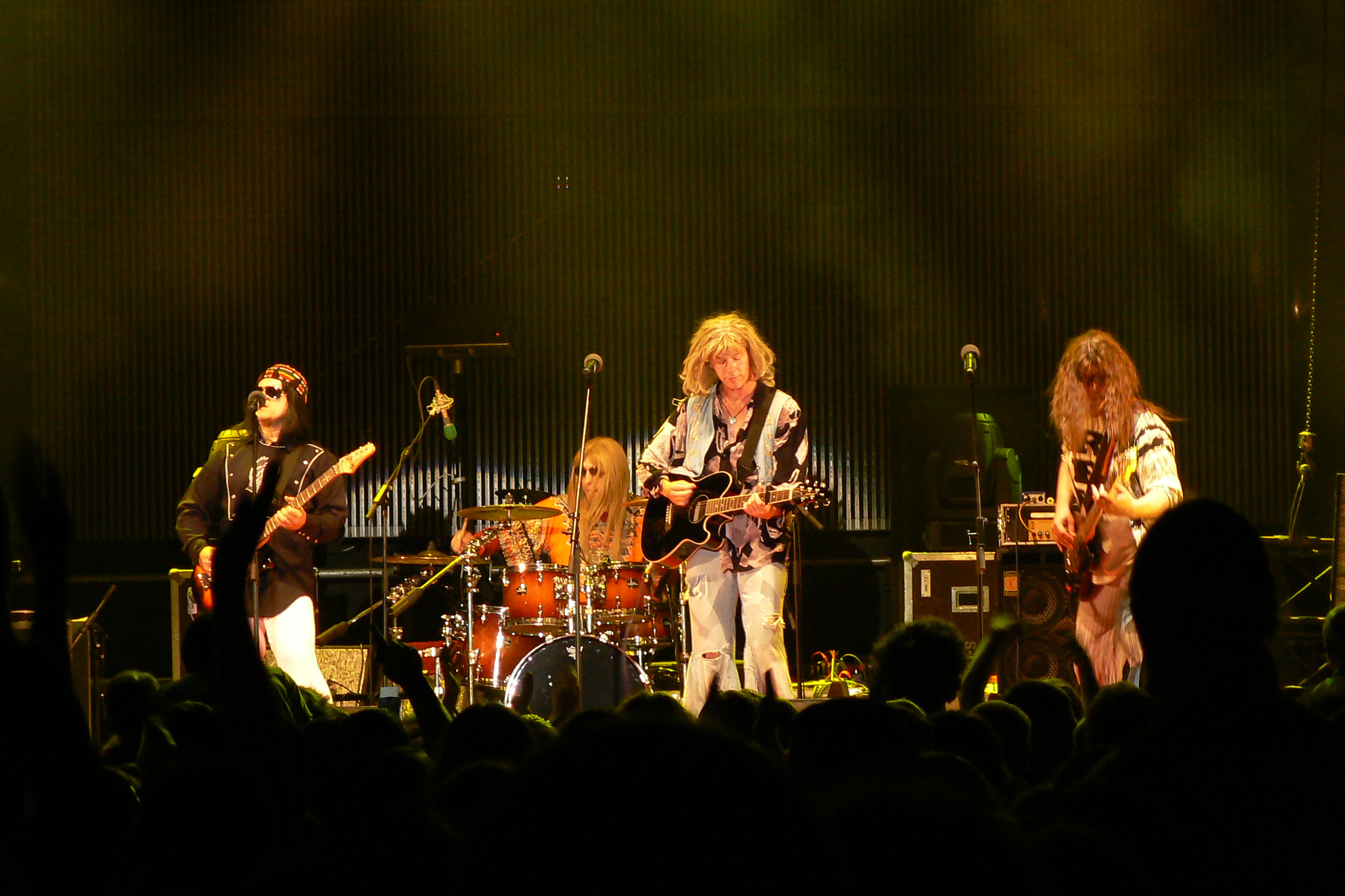 "Keistuolių teatras" at festival "Capital Days" in Vilnius.